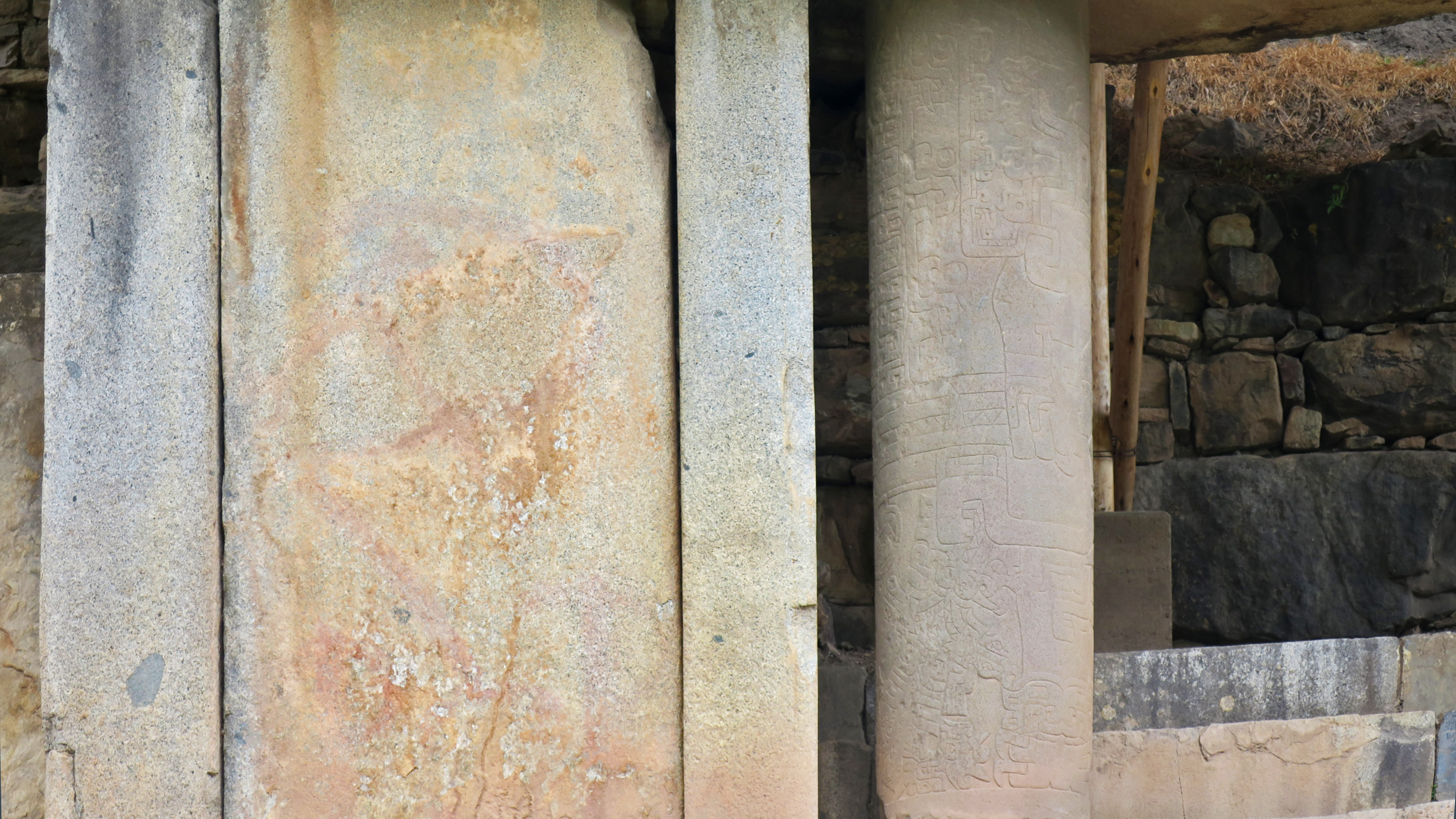 Chavín de Huantar - Ancash region, Peru 330